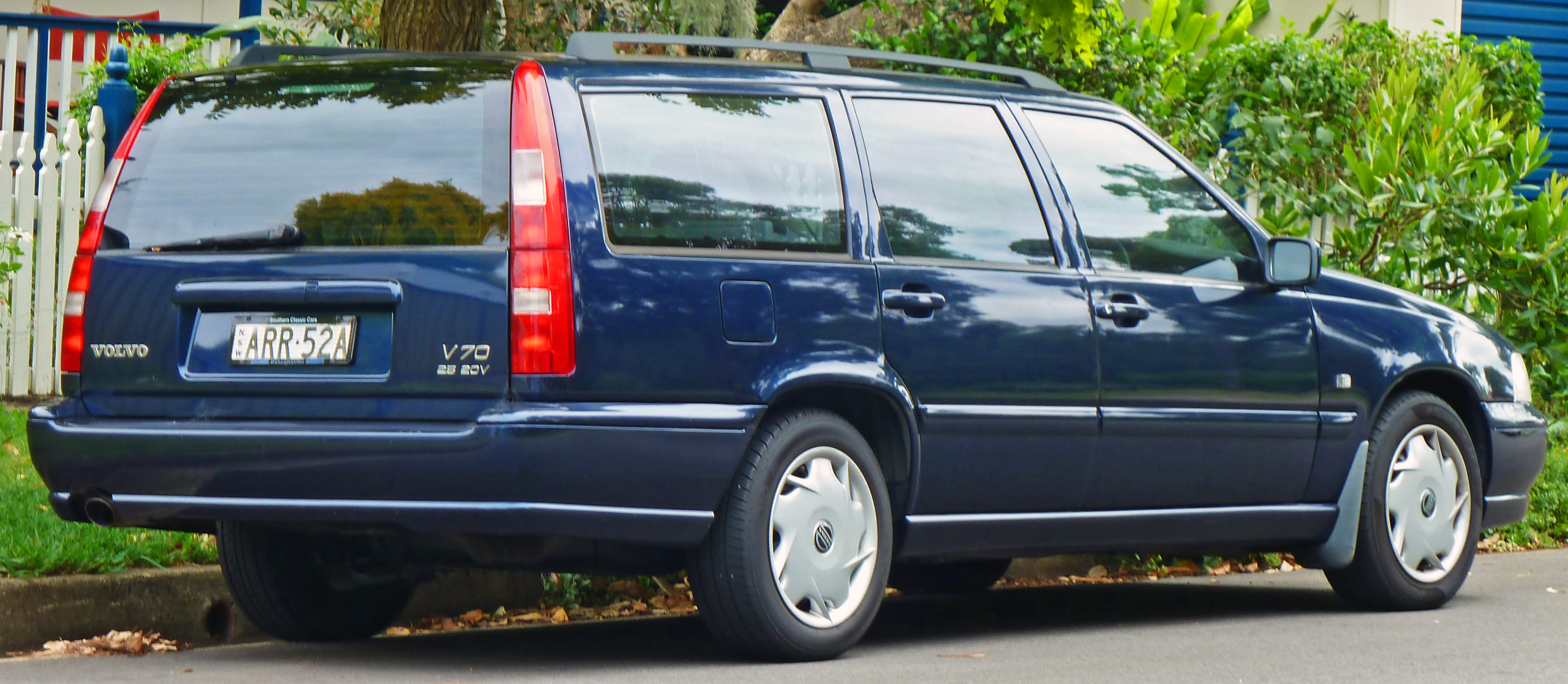 1999 Volvo V70 2.5 20V station wagon. This is an updated model as sold in Australia between mid-1998 and 1999. Photographed in Ramsgate, New South Wales, Australia.